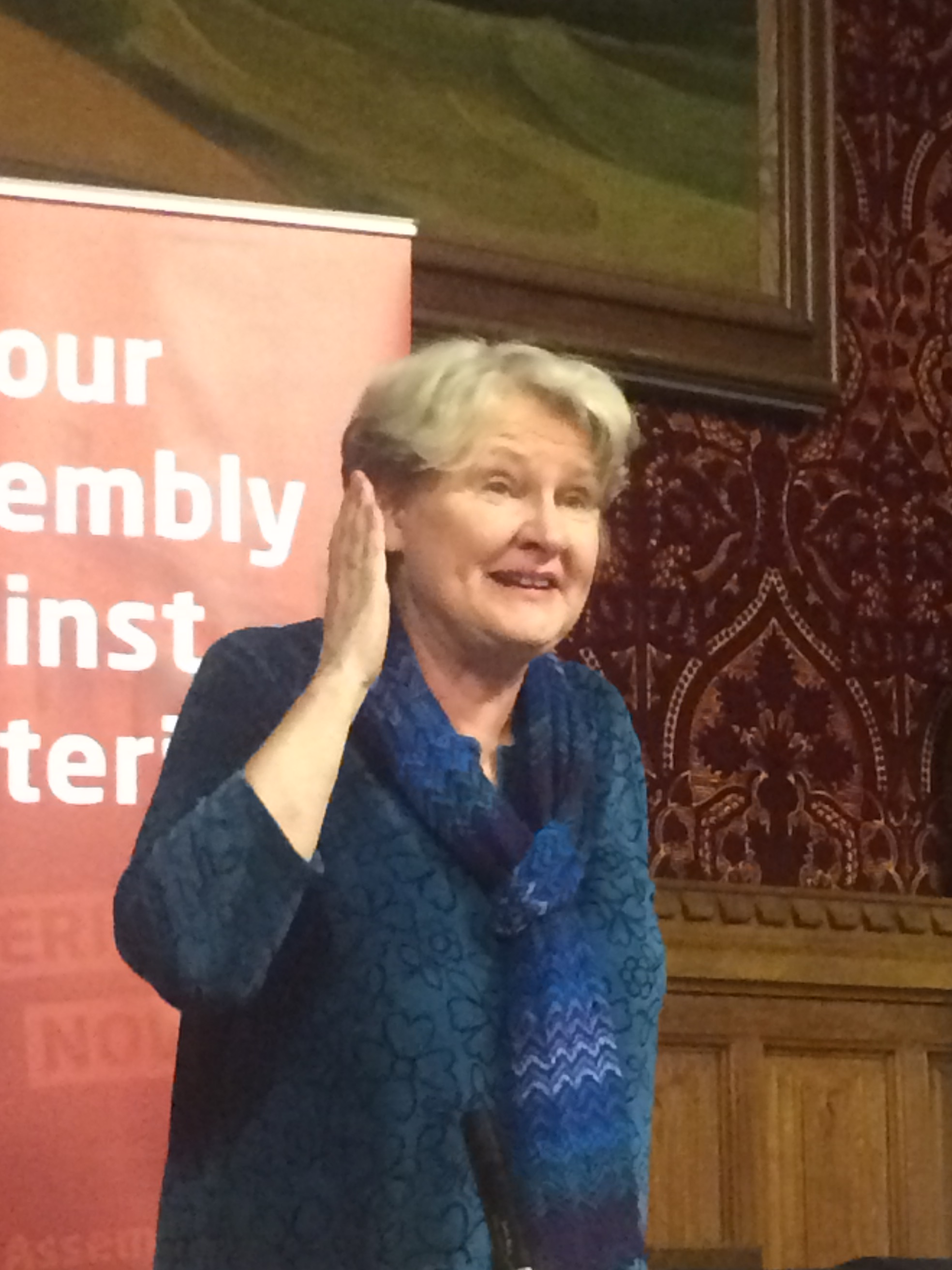 Helen Goodman in the House of Commons